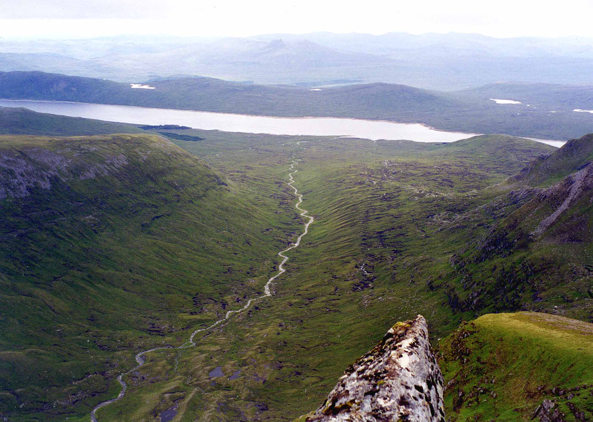 Personal picture taken by Mick Knapton